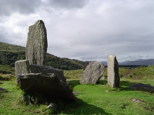 Uragh Stone Circle One of many ancient stone circles on the Beara Peninisula, Uragh occupies a spectacular site close to Lake Inchiquin.